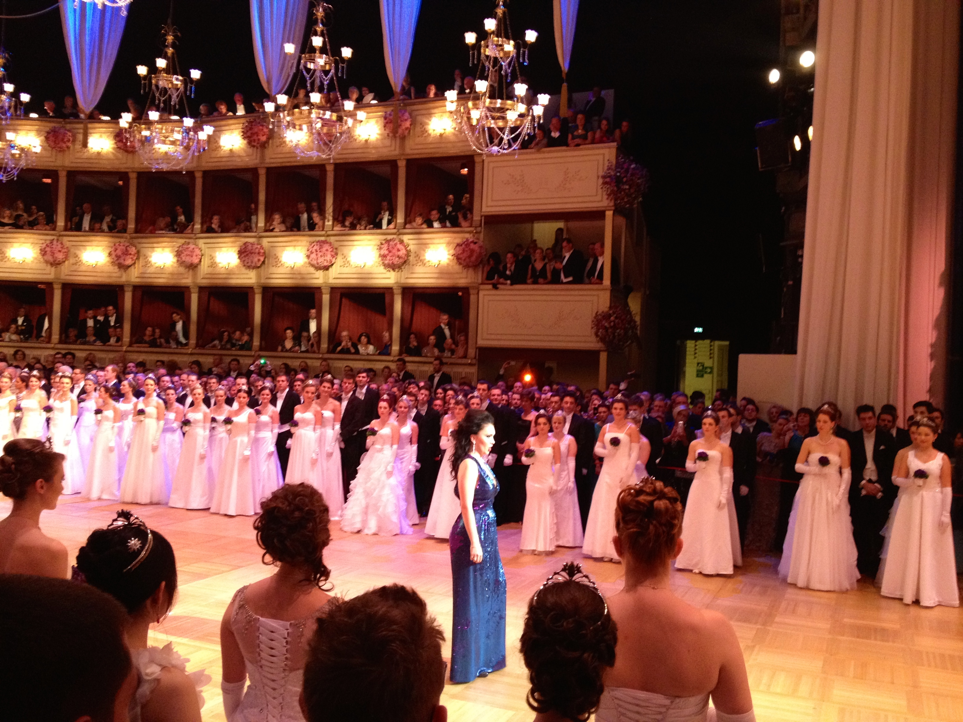 Margarita Gritskova singing Di Tanti Palpiti from Tancredi from Rossini, music by Wiener Staatsopernorchester, Vienna Opera Ball on 27 February 2014